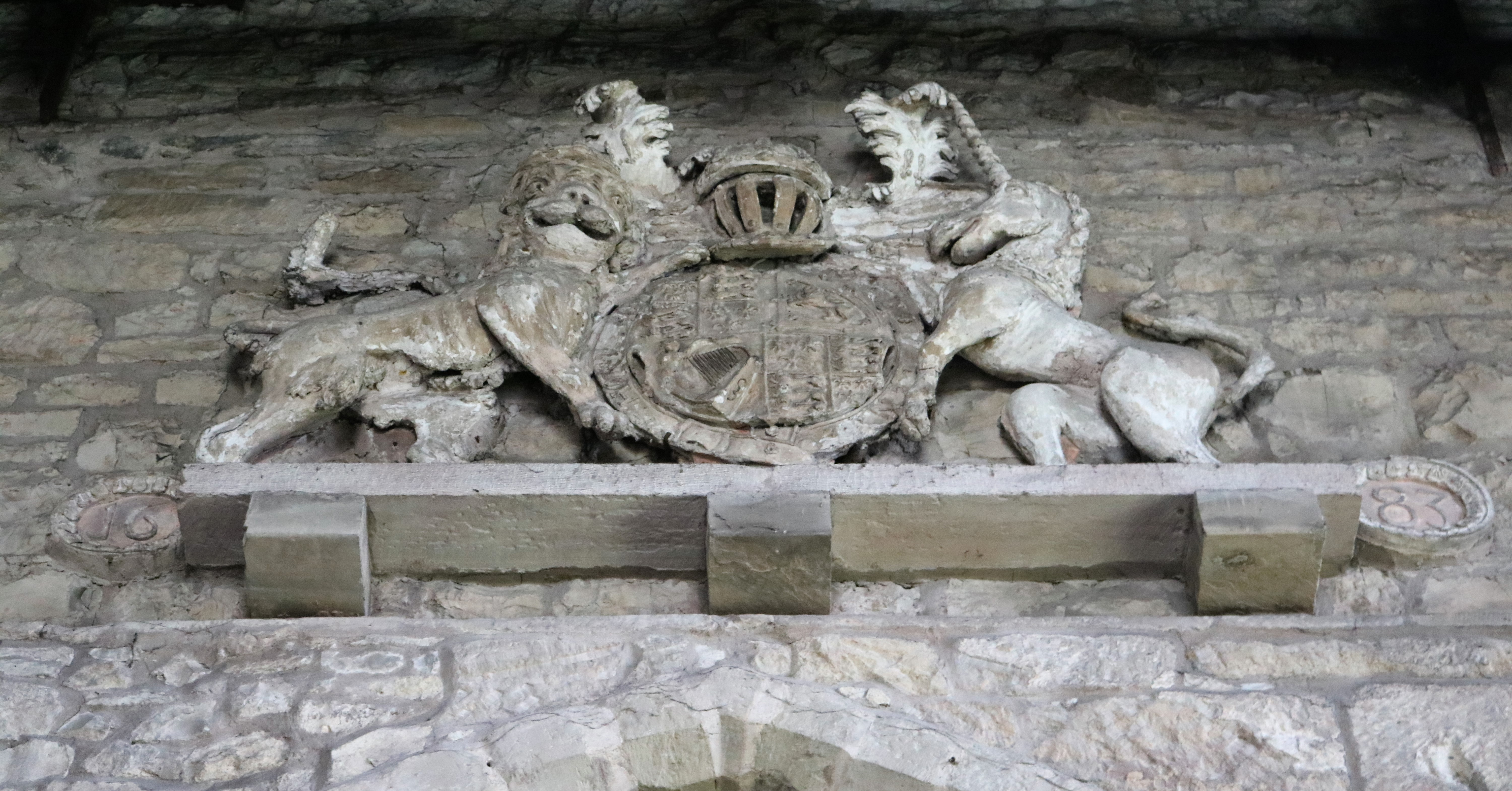 Coat of arms of King Charles II over the chancel arch in St James' parish church, Normanton-on-Soar, Nottinghamshire